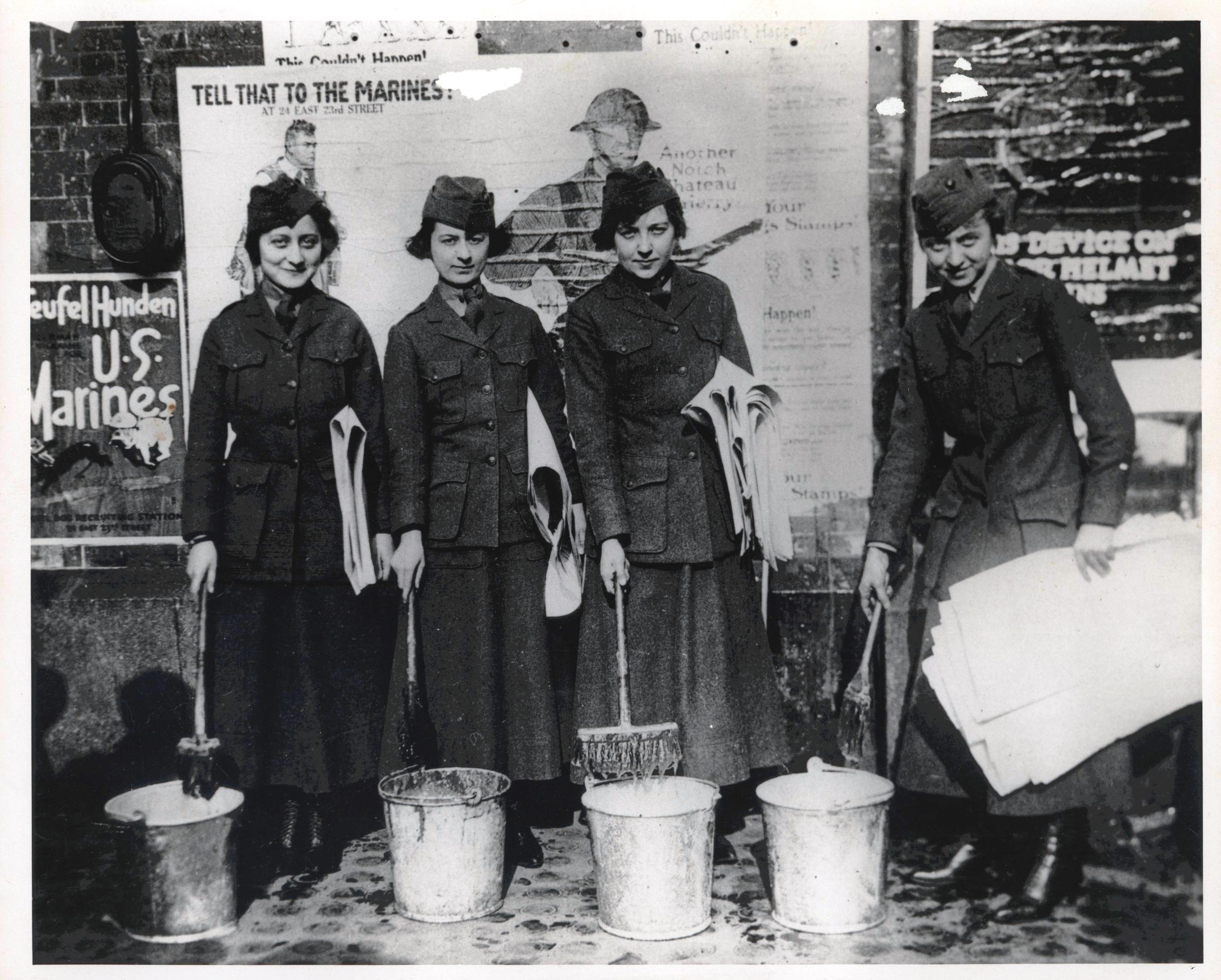 Women Marines post recruiting posters on a wall in New York City. From left to right, they are, Privates Minette Gaby, May English, Lillian Patterson, and Theresa Lake. From the collection of Marine Corps Women's Marine Reserve (COLL/981), Marine Corps Archives & Special Collections OFFICIAL USMC PHOTOGRAPH